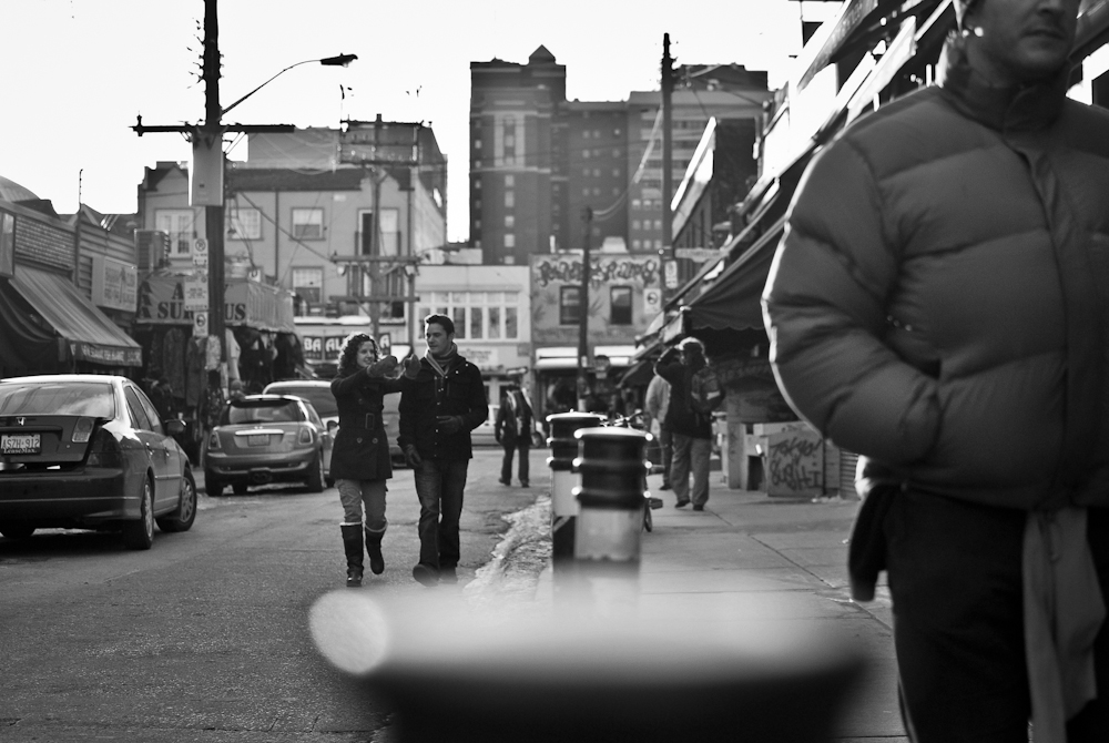 A photo taken in Kensington Market, Toronto, Canada. This is an example of street photogaphy.